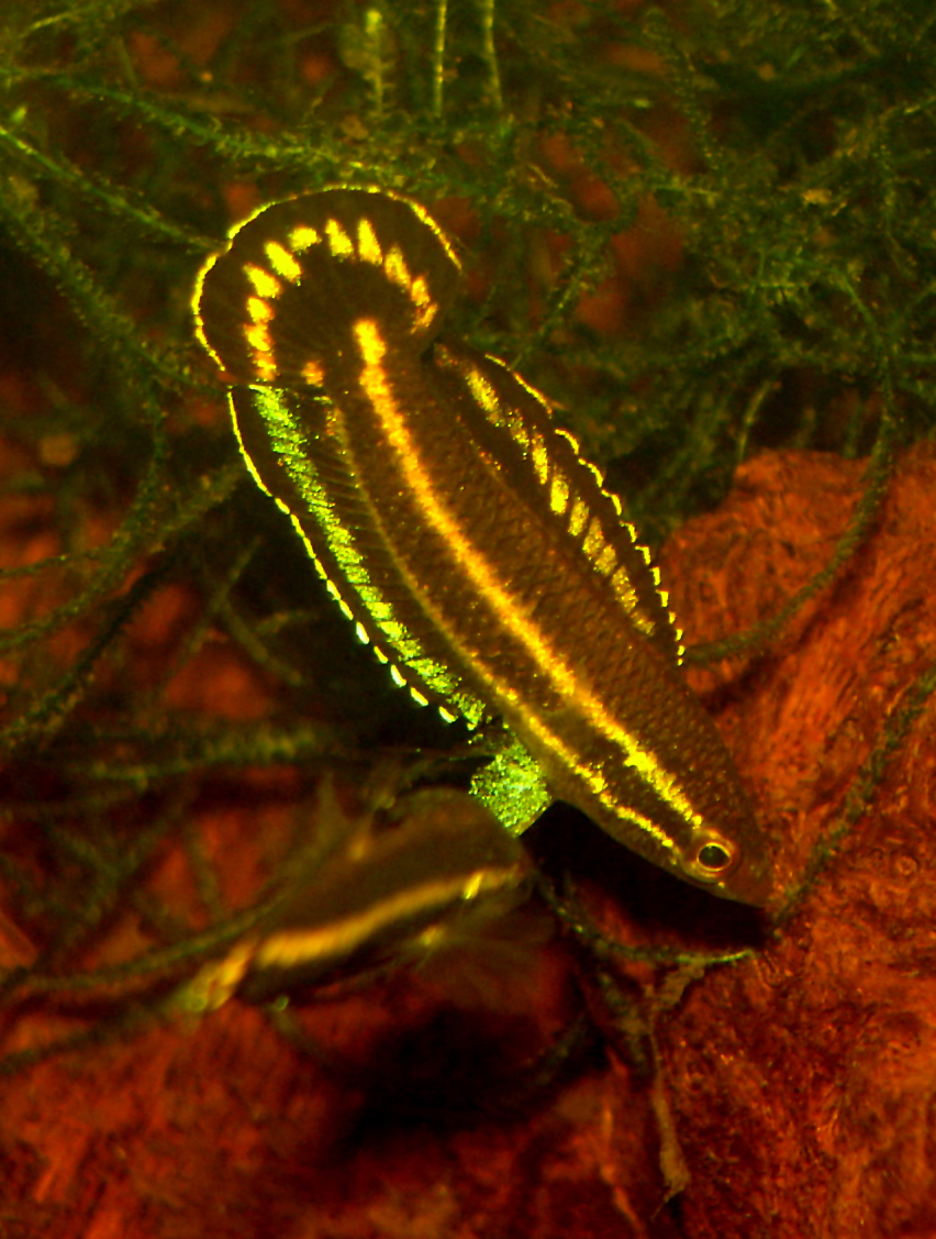 Parosphromenus harveyi in typical courtship display